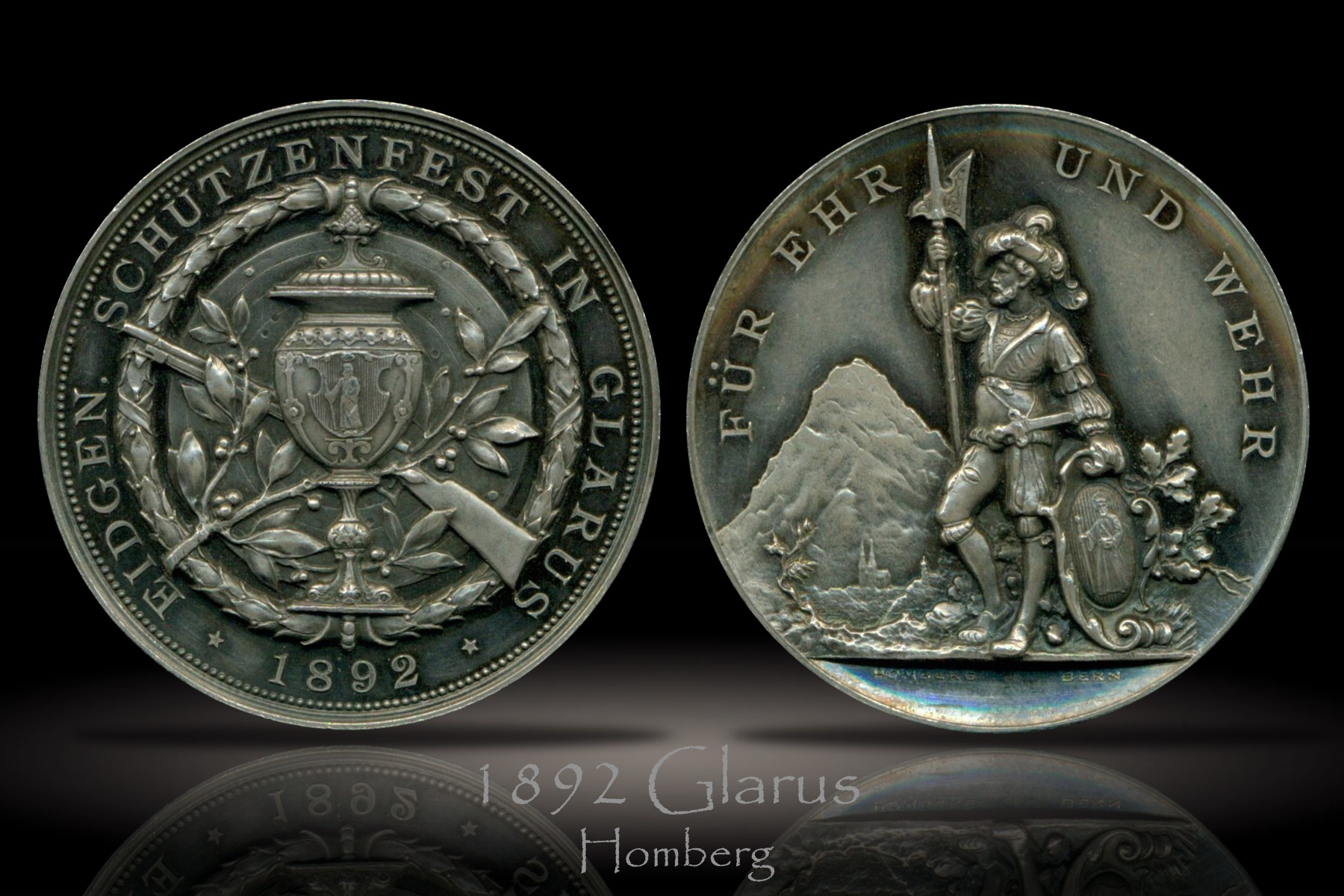 1892 silver schützenfest medal from Federal shoot in Canton Glarus, Switzerland